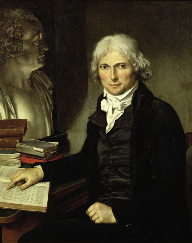 Portrait of Xavier Bichat (1771–1802). In the background is a bust of Pierre-Joseph Desault